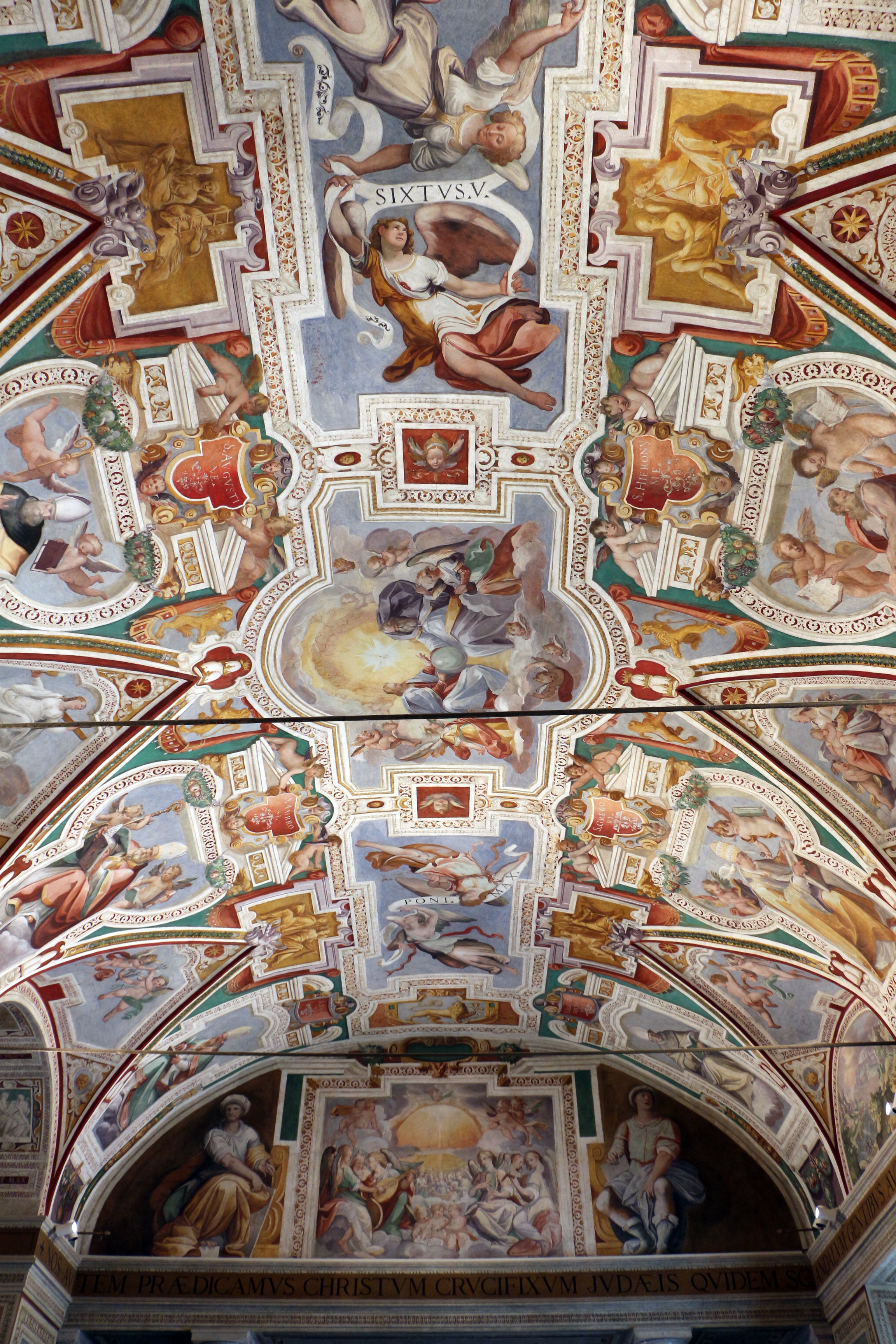 Scala Santa (Rome)